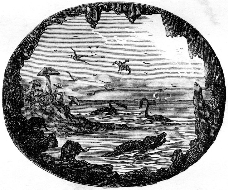 An ilustration from the novel "Journey to the Center of the Earth" by Jules Verne painted by Édouard Riou.